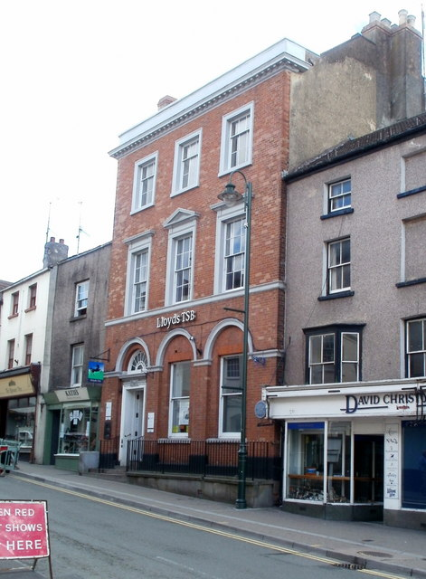 Lloyds TSB Monmouth Located at 18 Monnow Street, near the corner of St John's Street. A Monmouth Civic Society blue plaque on the building records that the defences of Monmouth's first century (AD) fort lie under the building, at right angles to the street. The fort predated the Roman settlement of Blestium.